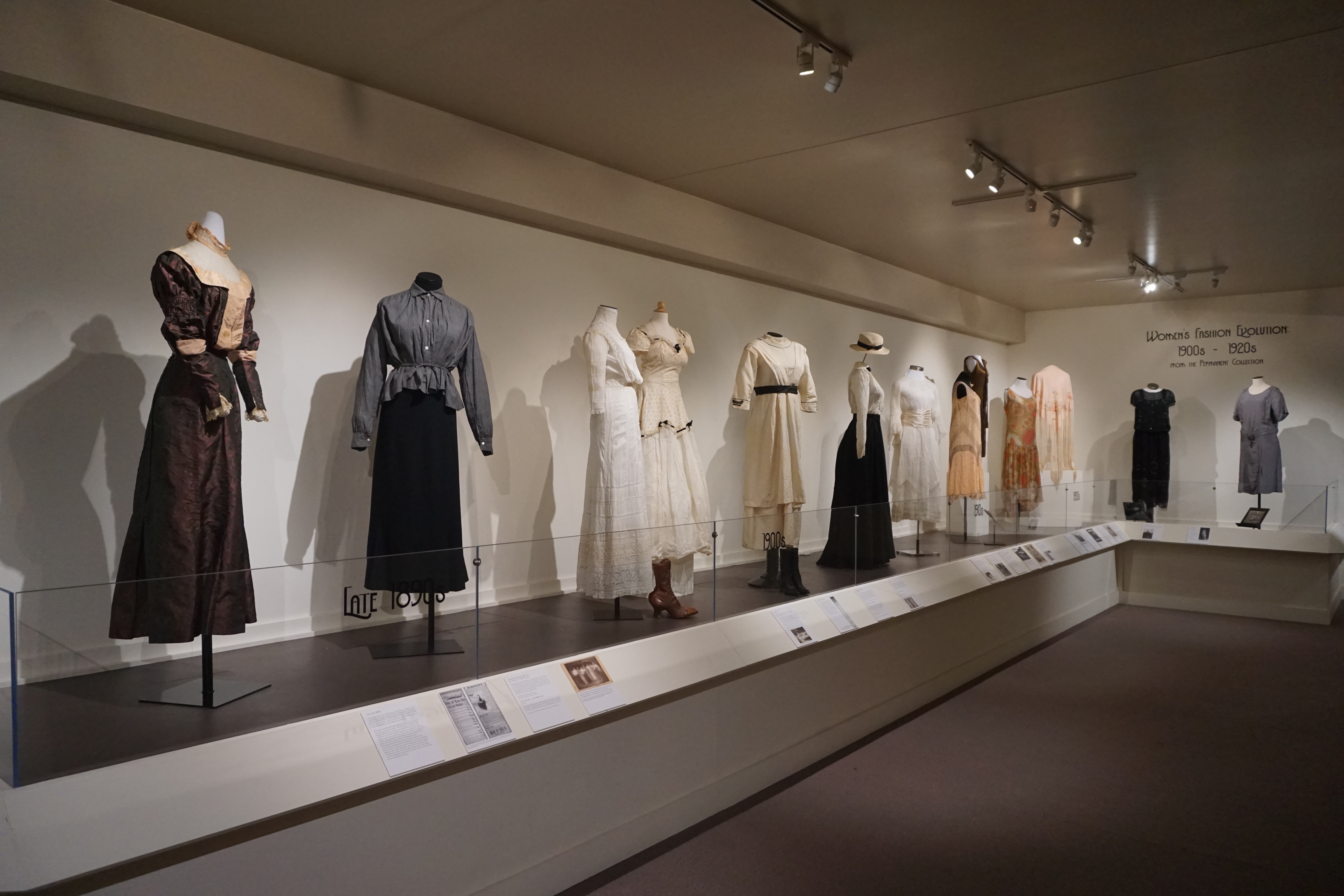 The Women's Fashion Evolution: 1900s-1920s, from the Permanent Collection exhibit at The Grace Museum in Abilene, Texas (United States).